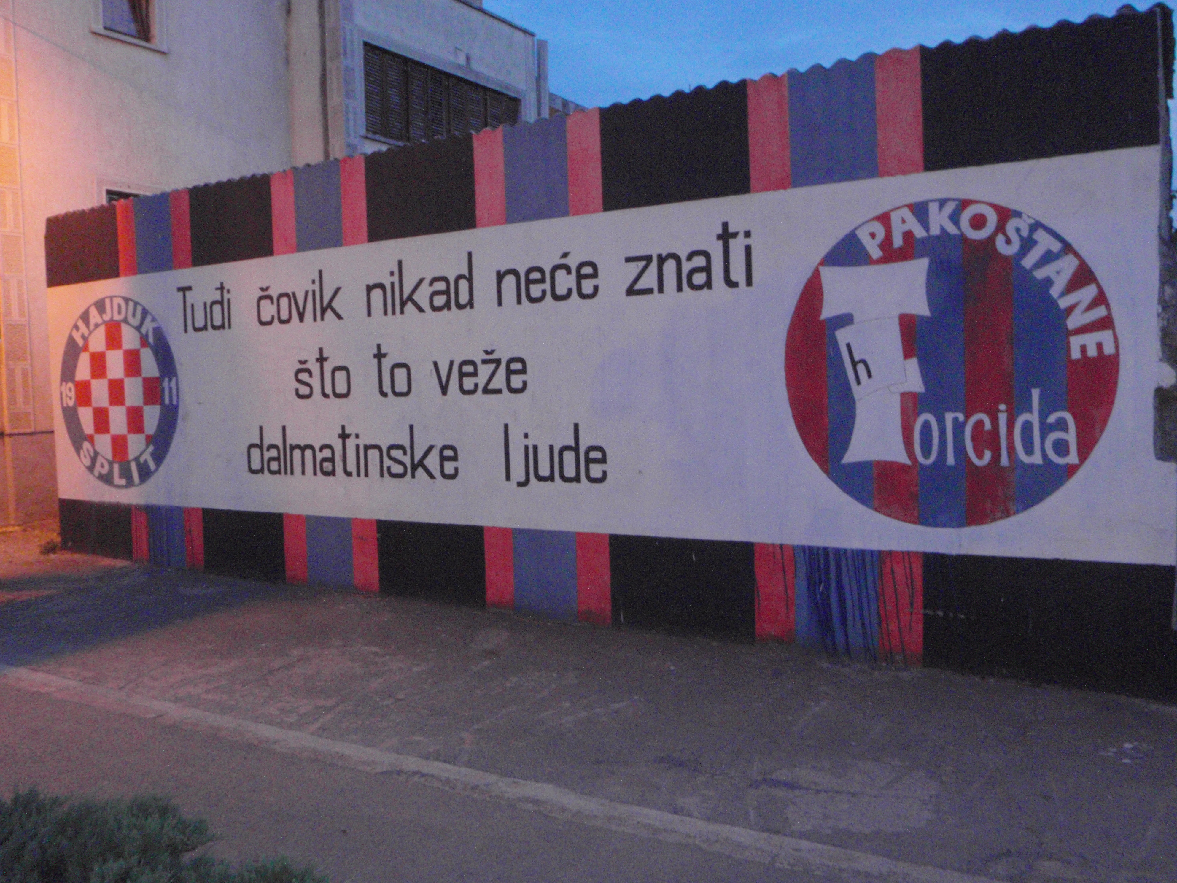 Hajduk Forever - graffiti from Torcida Pakoštane.